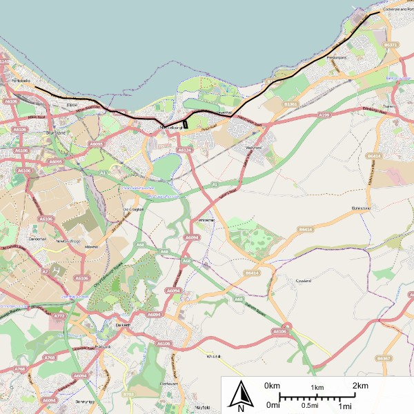 Musselburgh and District Electric Light and Traction Company Legend: *━━━ Primary lines *━━━ Secondary lines *━━━ Tertiary lines